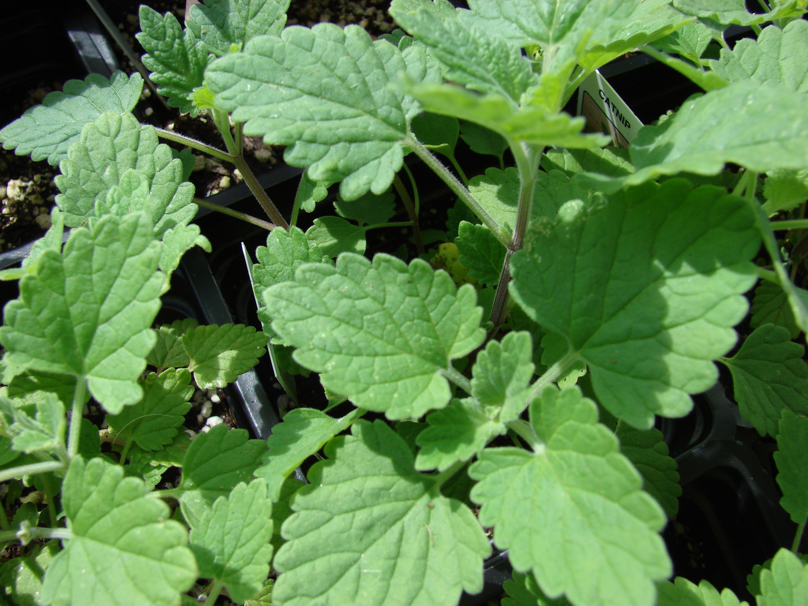 Nepeta cataria (habit). Location: Maui, Home Depot Nursery Kahului